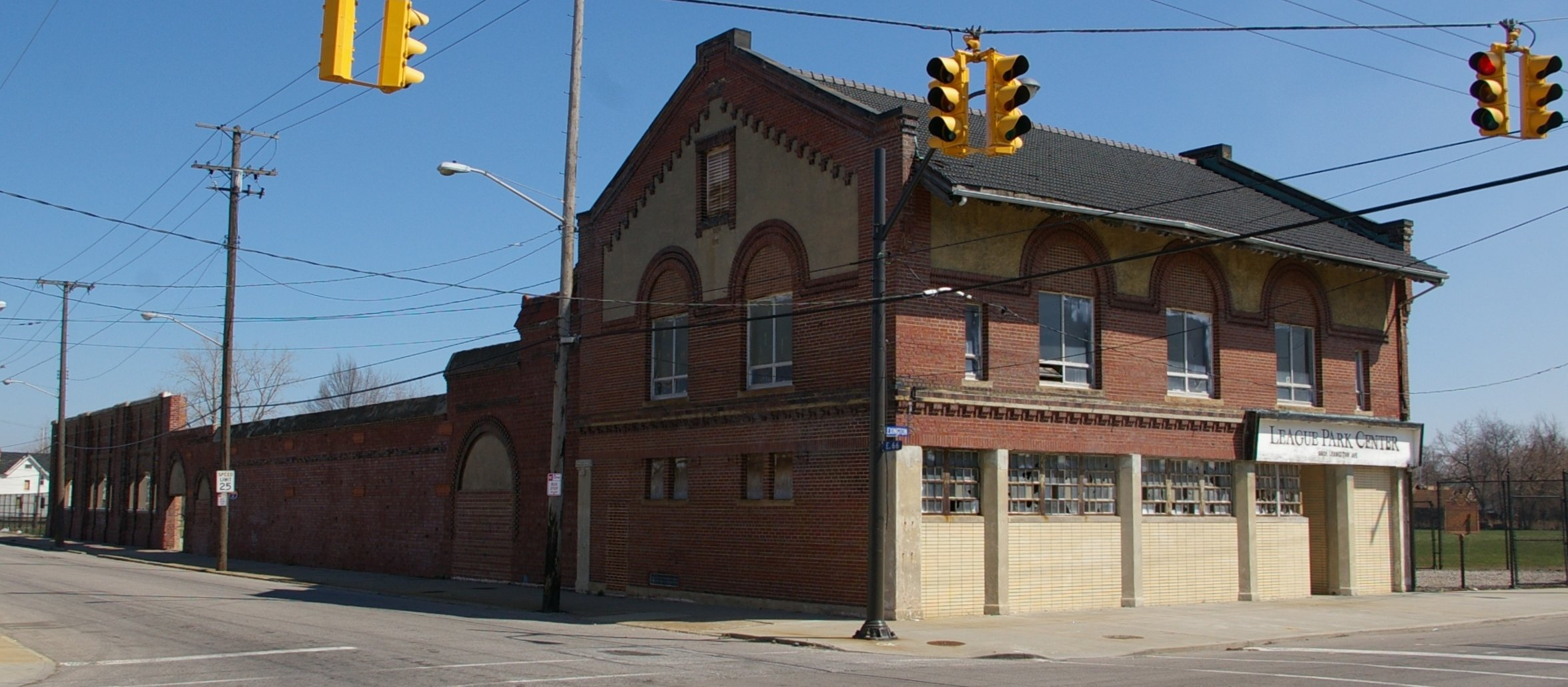 A view of the League Park at 6601 Lexington Avenue, in Cleveland, Ohio. The structure, built in 1909, is listed on the National Register of Historic Places.